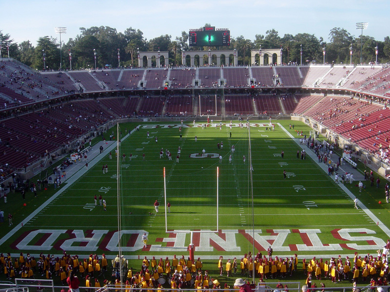 Stanford Stadium before a football game, the new renovations added arches and a mix of trees at one end. Photo taken by Bobak Ha'Eri. November 4, 2006. Please observe license and properly cite in use outside Wikipedia. Category:Stanford University images